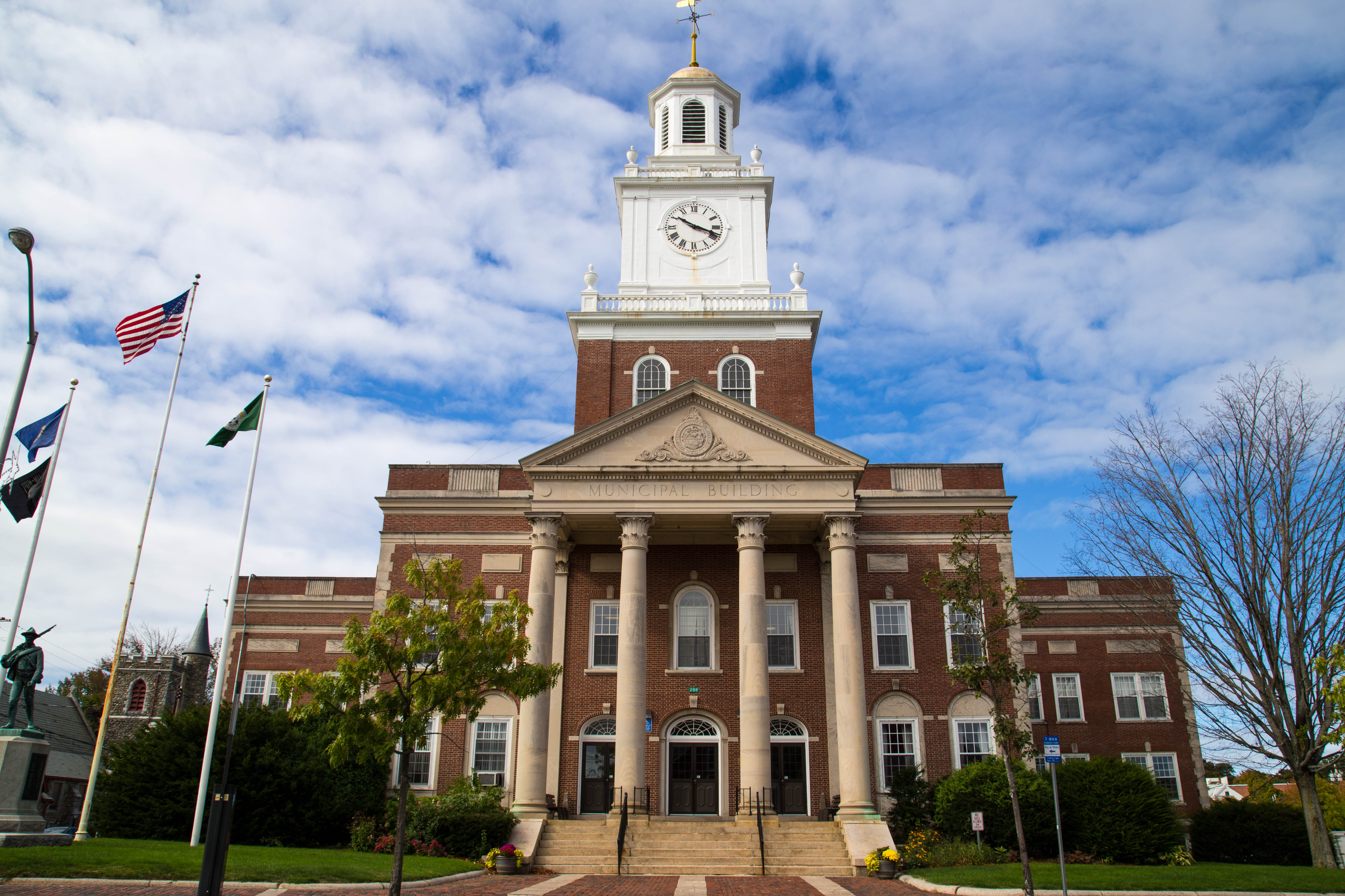 Dover City Hall, 288 Central Avenue, Dover, New Hampshire